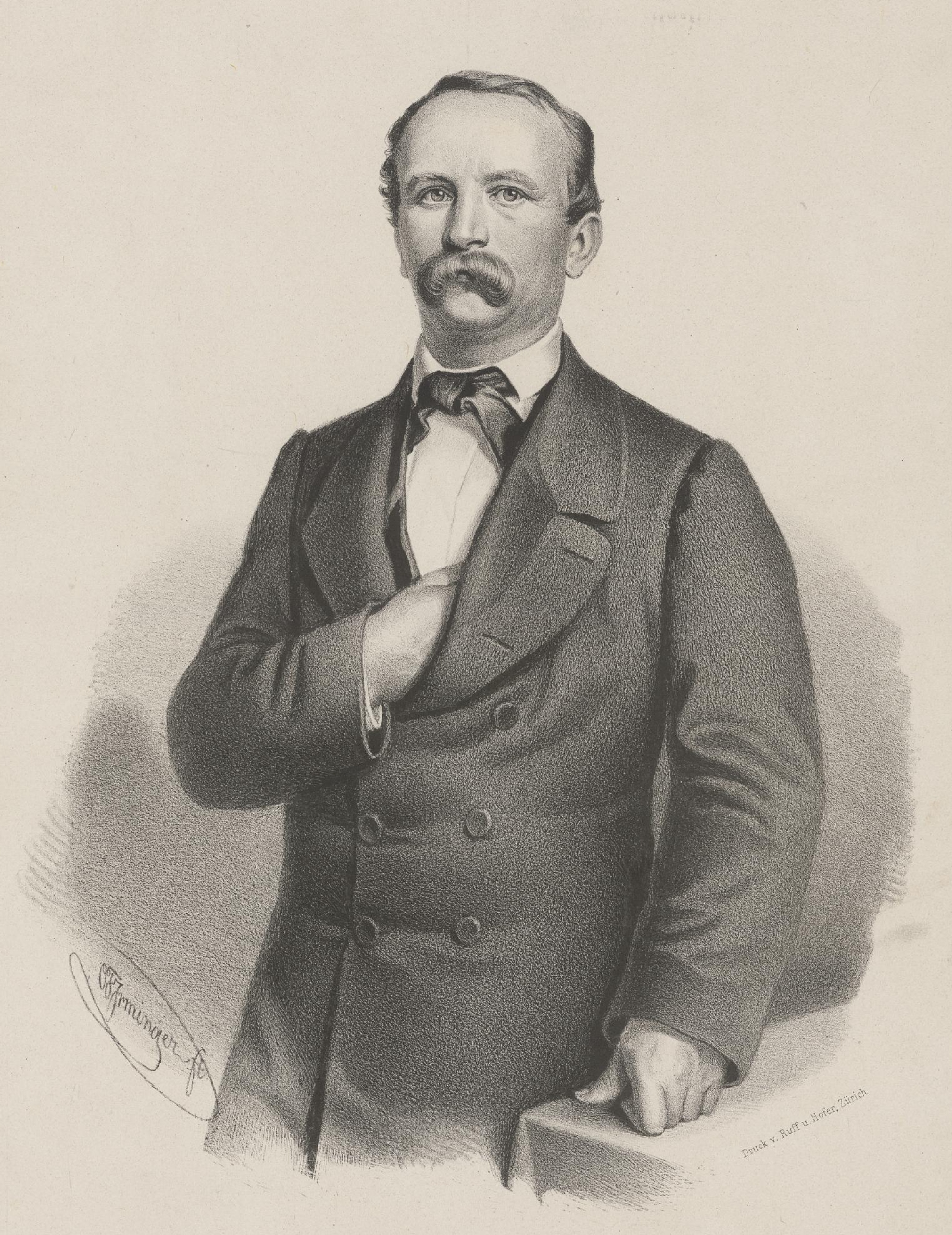 Jakob Stämpfli (1820–1879), Swiss politician and member of the Swiss Federal Council.